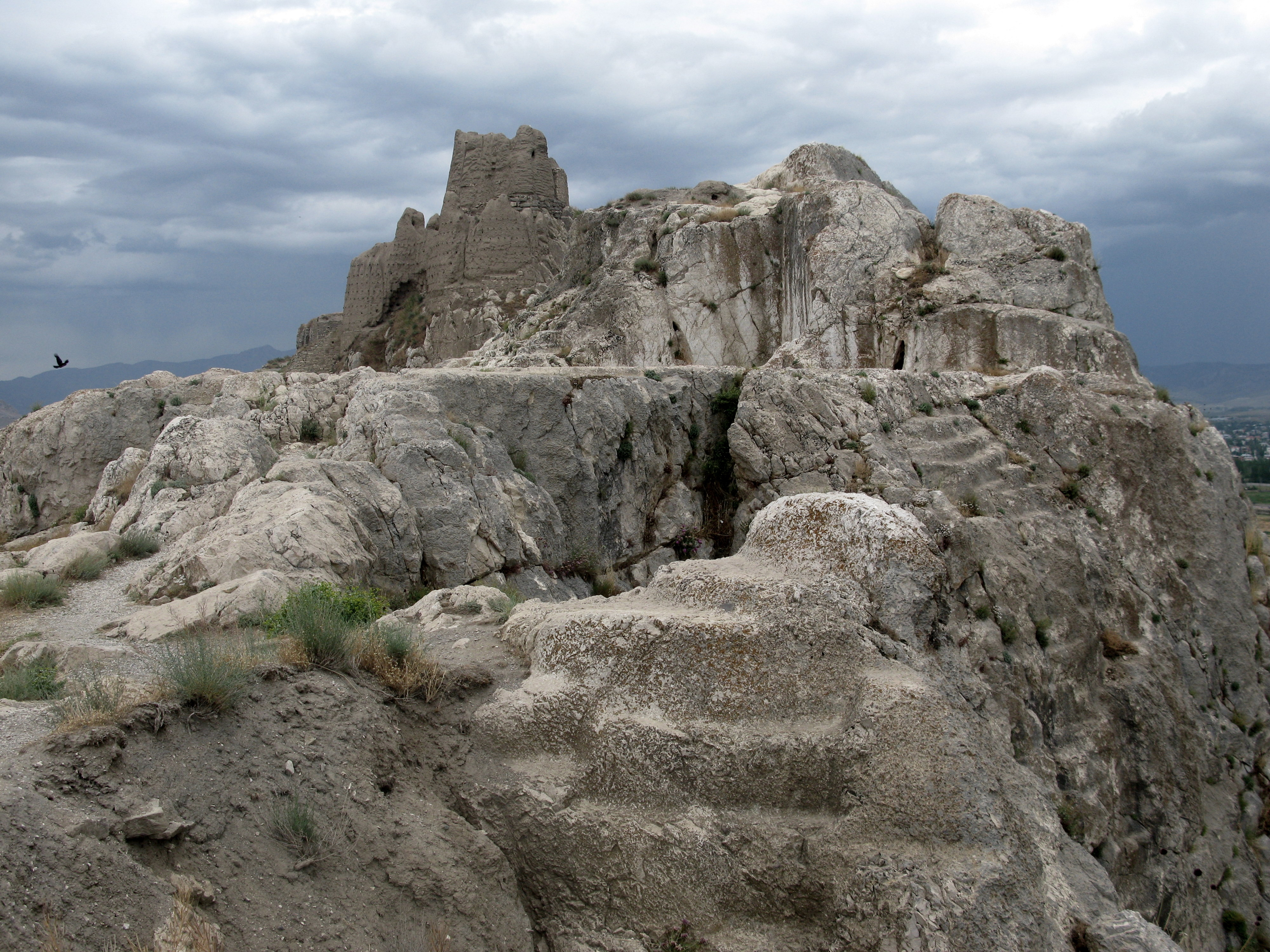 On top of the castle Van in Van, Turkey